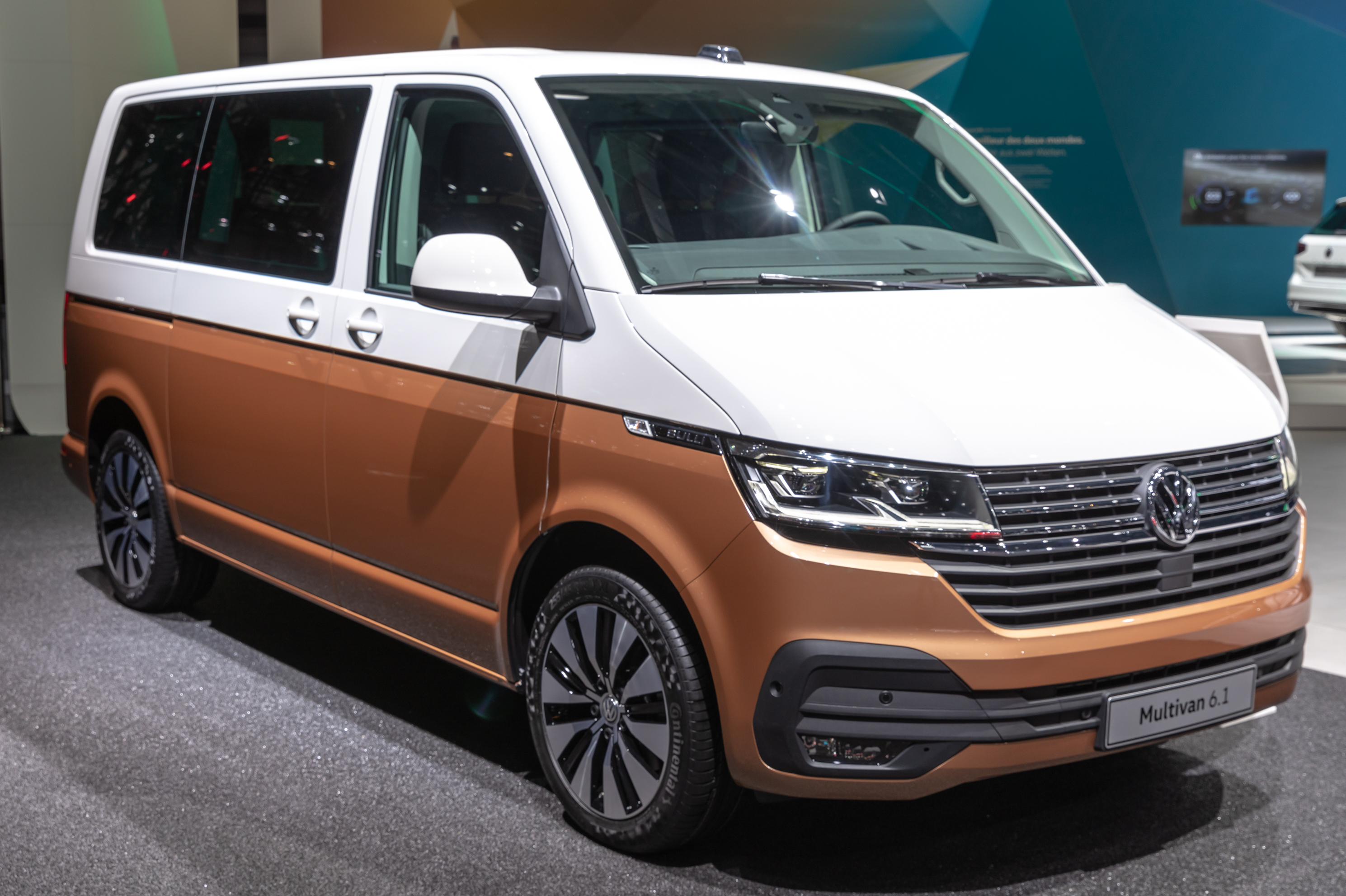 VW Multivan 6.1 at Geneva International Motor Show 2019, Le Grand-Saconnex